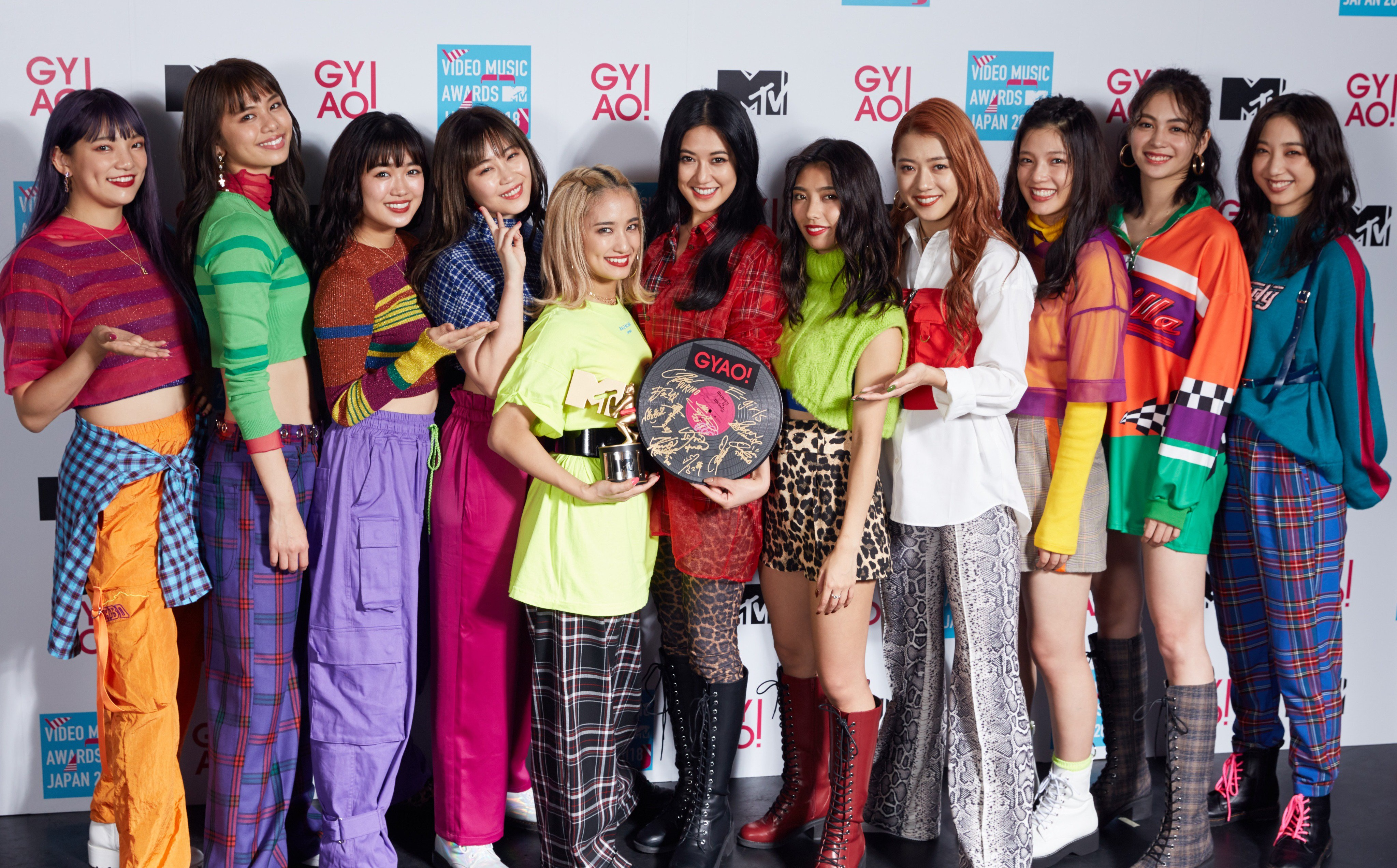 Image of the current line up of Japanese vocal and dance girl group E-girls, used to serve as the primary means of visual identification at the top of the article dedicated to the work in question.